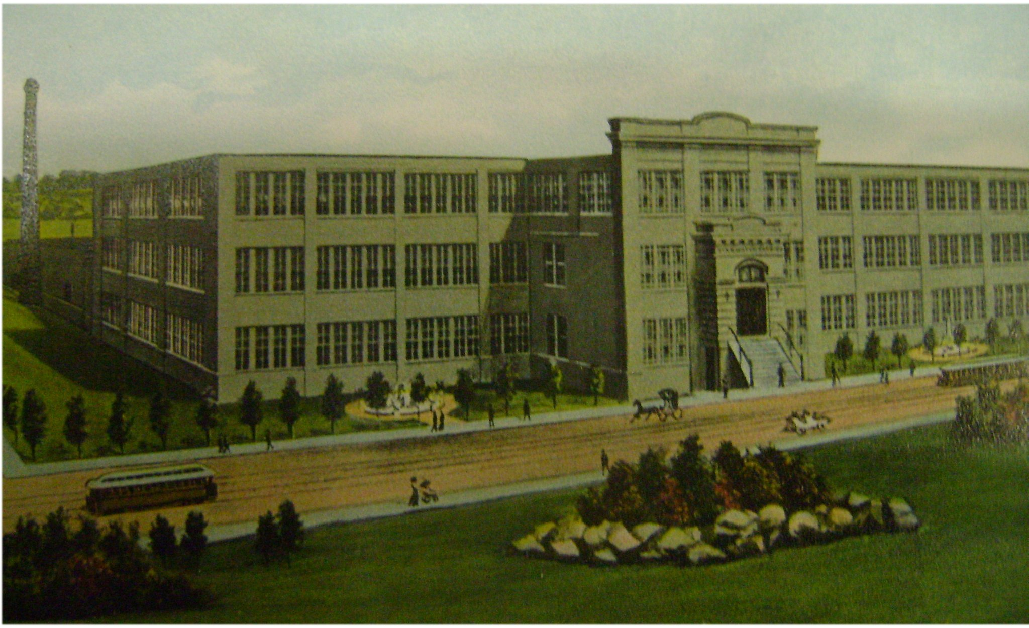 Post card picture of the Star Watch Case Company in 1920